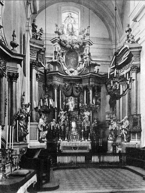 Altar of the St. Martin Church in Warsaw. The profuse late baroque altar was constructed in 1752 according to design by Karol Bay from 1737.[1] It was painted and gilded by Łukasz Smuglewicz between 1747-1748 and adorned with sculptures by Jan Jerzy Plersch (1748).[1] The altar was destroyed during the severe bombing of the church by the Germans in 1944.[1]